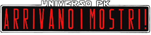 Universo PK: Arrivano i mostri!'s logotype